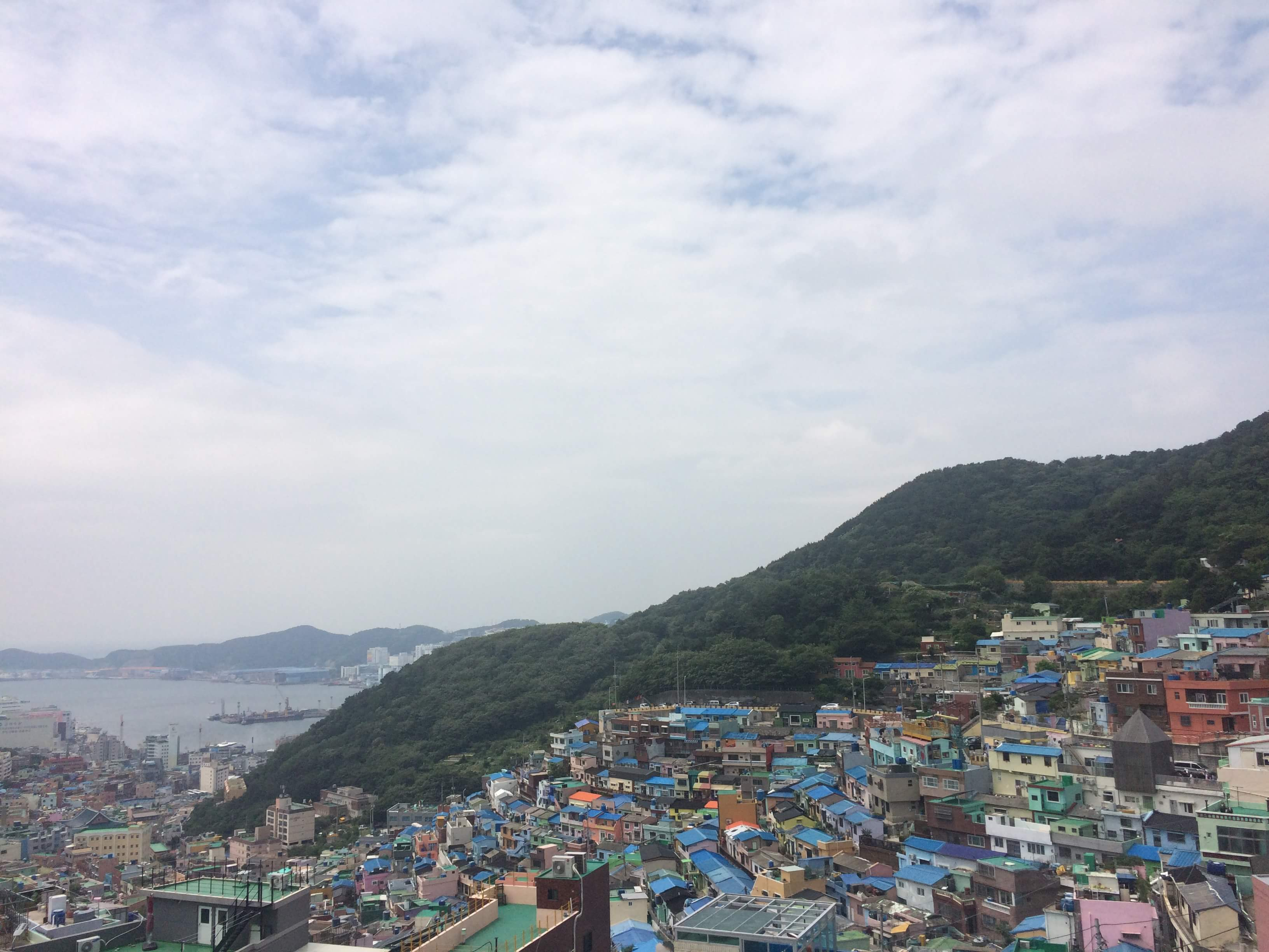 Photo of Gamcheon culture village in busan south korea.